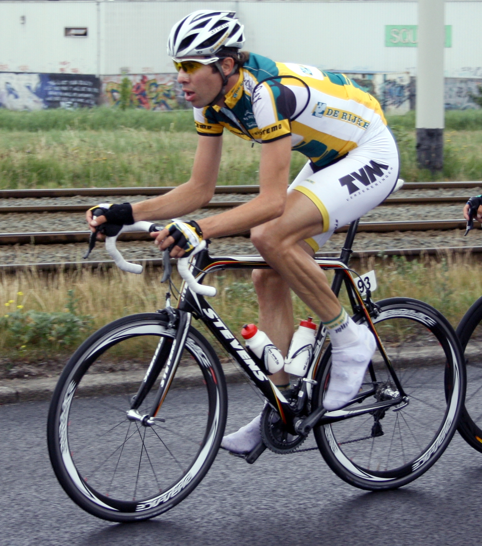 Sander Oostlander at the 2011 Tour de Rijke